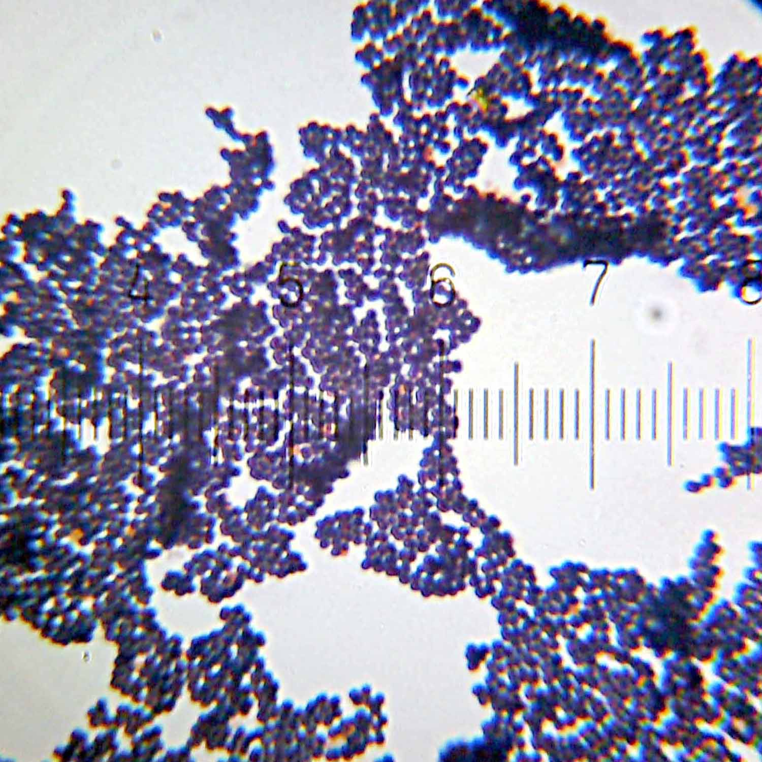 Staphylococcus. 100× objective, 15× eyepiece; the numbered ticks are 11 µM apart. Gram-stained The scale of the full-sized version of this image is such that each pixel represents a 0.038 µM square.